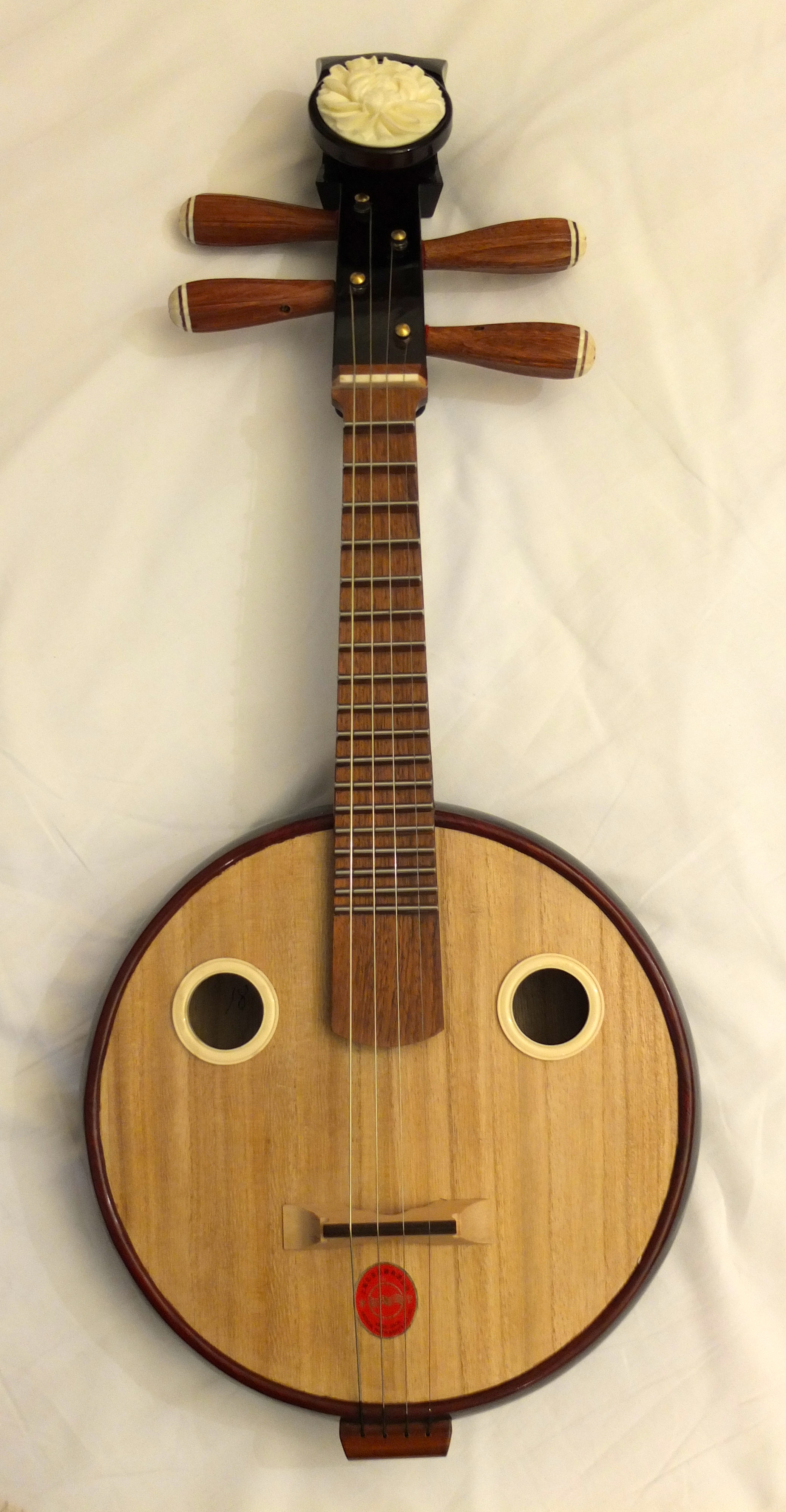 Ruan (small ruan, Chinese plucked string instrument). length: 70cm, diameter: 30cm, approx.